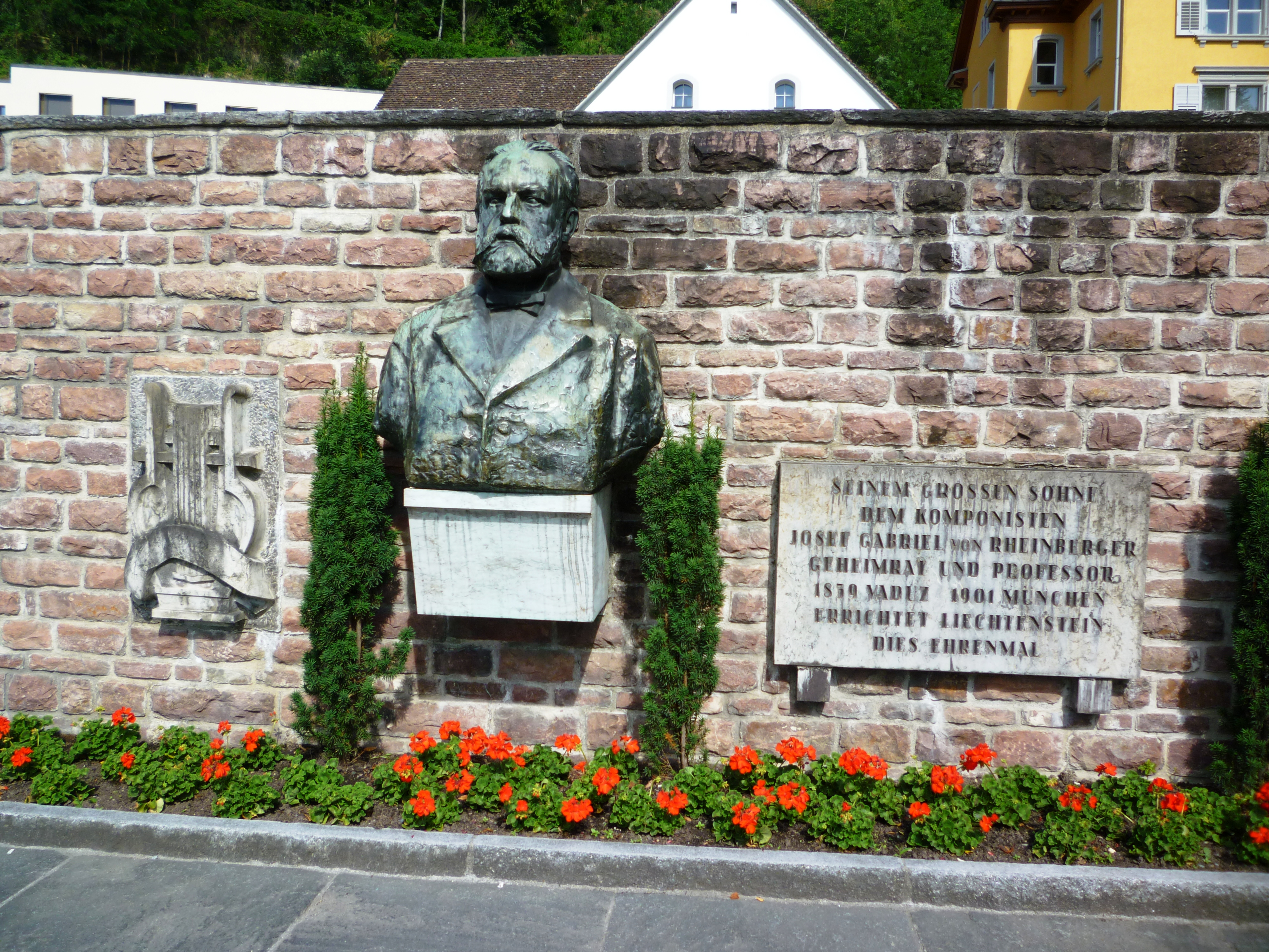 Monument to Josef Gabriel Rheinberger in Vaduz, principality of Liechtenstein